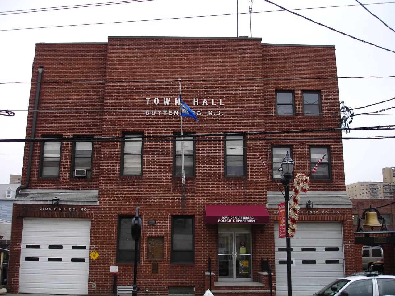 The town hall of Guttenberg, New Jersey, USA. I took this photo in November 2006.